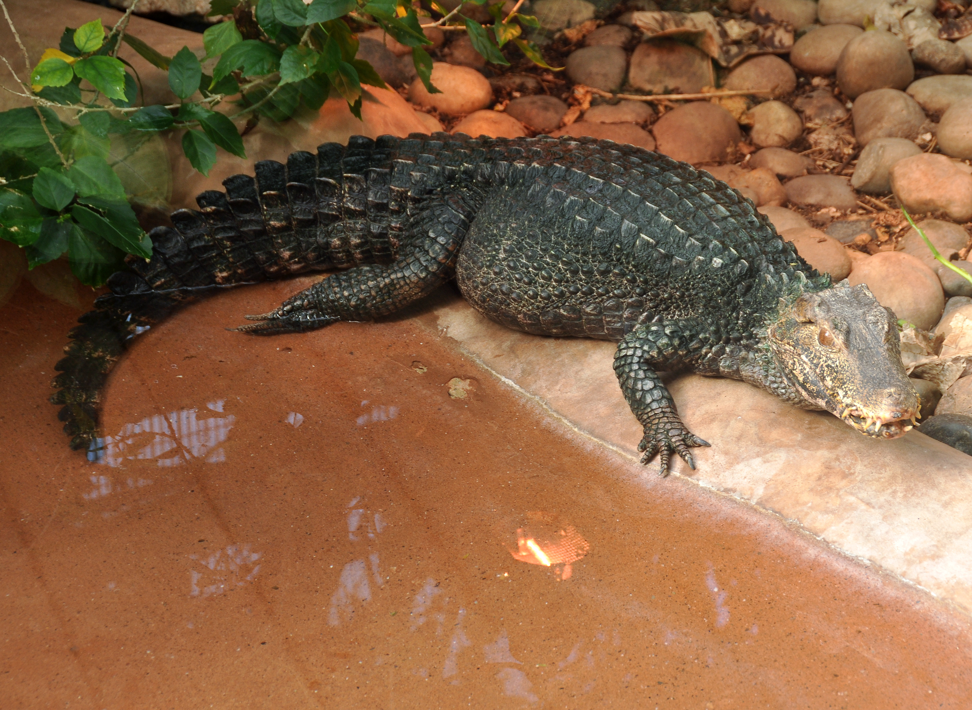 A Cuvier's Dwarf Caiman (Paleosuchus palpebrosus) in Paignton Zoo, Devon, UK.